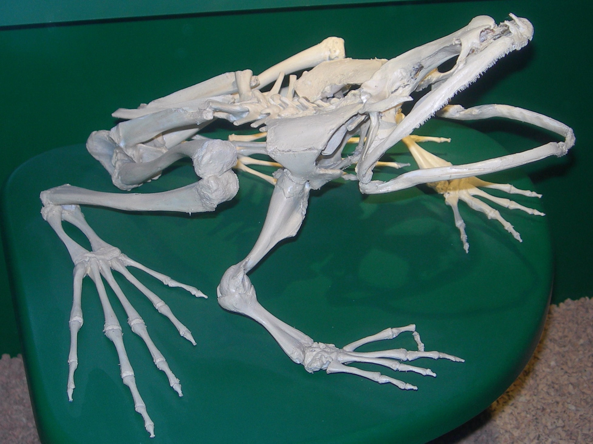 Goliath frog (Conraua goliath) skeleton, at the Muséum d'Histoire naturelle de Genève.